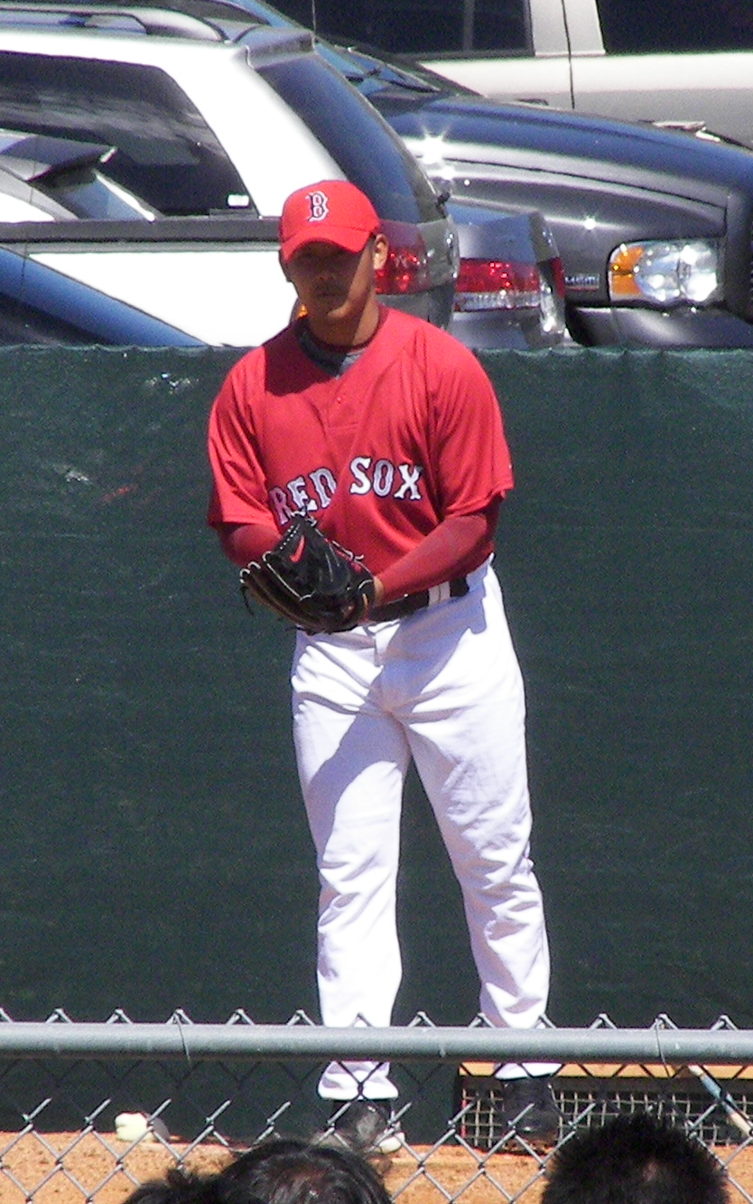 Boston Red Sox pitcher Daisuke Matsuzaka loosening up before the Red Sox' spring training game at City of Palms Park in Fort Myers, Florida.